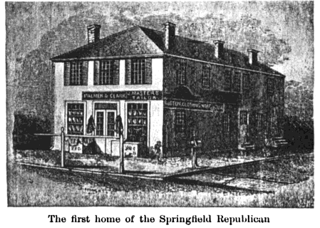 Copeland, Alfred Minott (1902), Our county and its people": A History of Hampden County Massachusetts, Volume 1, The Century Memorial Publishing Company, p. 426.